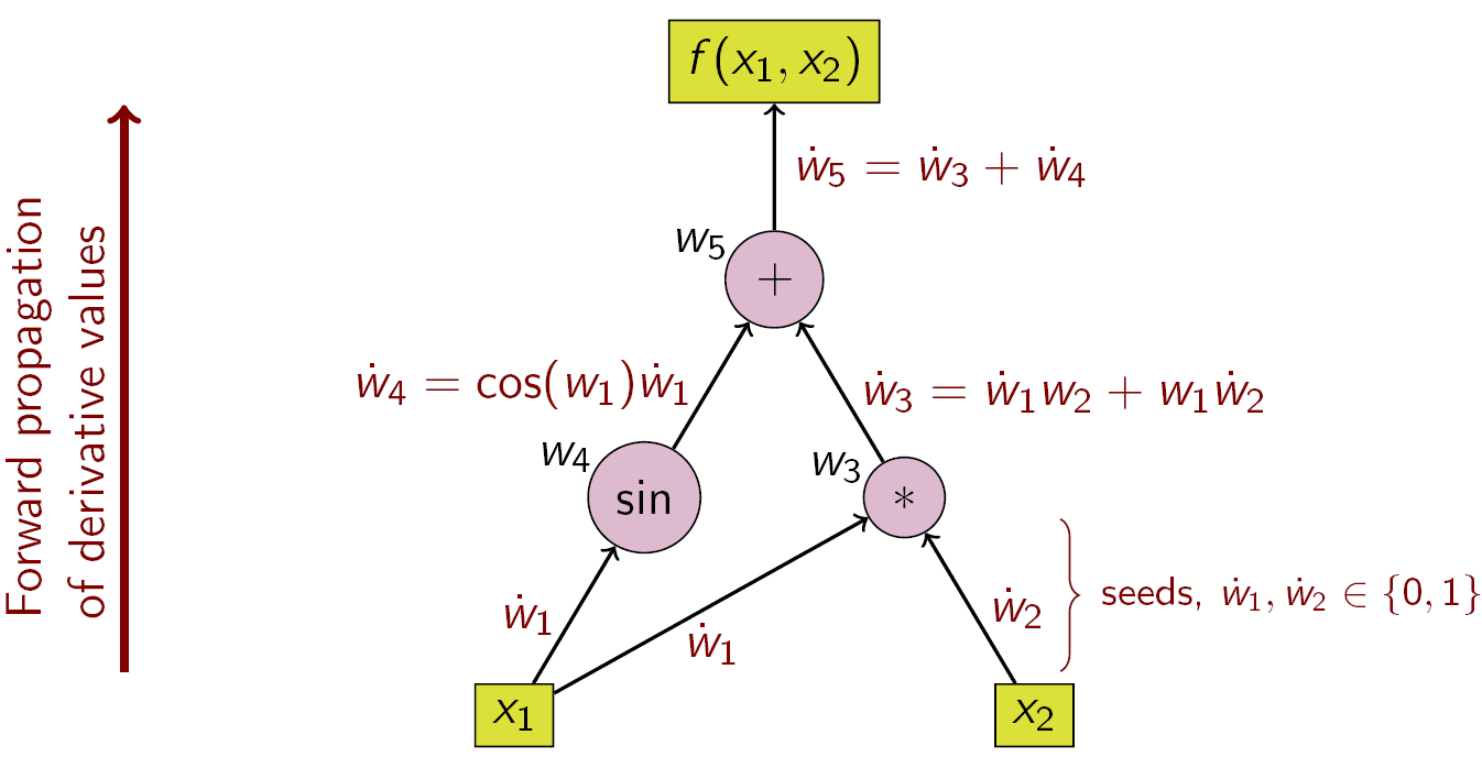 I made this myself using the graphics programming language TikZ, Beamer (LaTeX) and LaTeX. It displays how derivative values propagate according to the chain rule in automatic differentiation for the function f ( x 1 , x 2 ) = x 1 x 2 + sin ⁡ ( x 1 ) {\displaystyle f(x_{1},x_{2})=x_{1}x_{2}+\sin(x_{1})} Varying the seeds will give different derivatives.